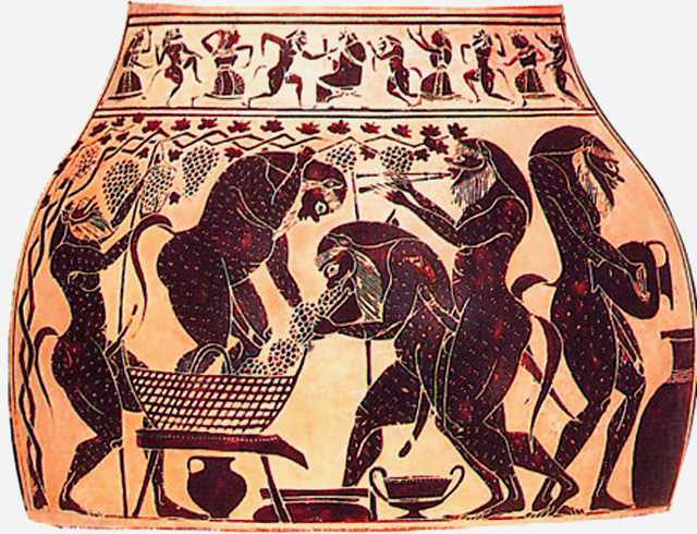 Sileni by the pintor Amose in - 540